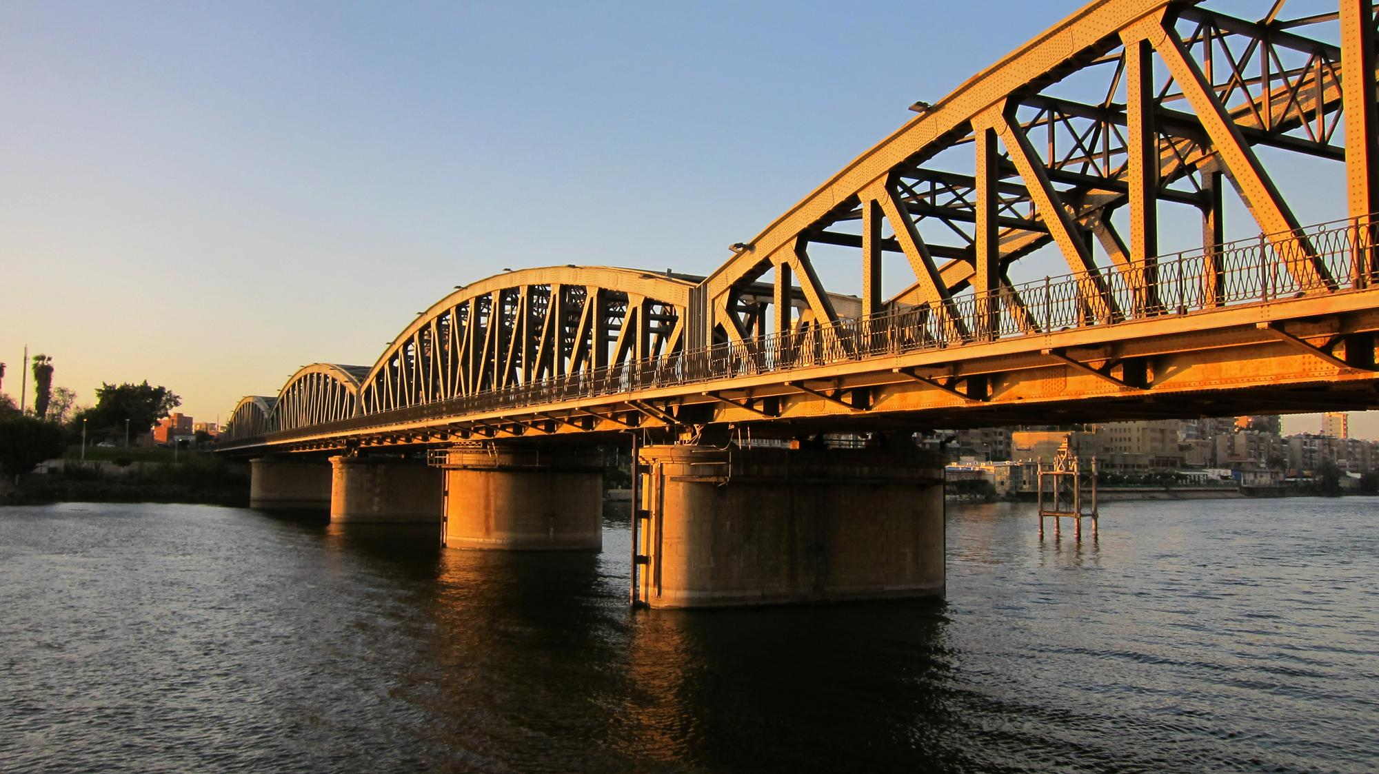 El Mansoura (Arabic: المنصورة, al-manṣūrah) is a city in Egypt, with a population of 420,000. It is the capital of the Dakahlia Governorate. Mansoura lies on the east bank of the Damietta branch of the Nile, in the Delta region. Mansoura is about 120 km northeast of Cairo. Across from the city, on the opposite bank of the Nile, is the town of Talkha. Mansoura and Talkha together form a metropolitan city. More.